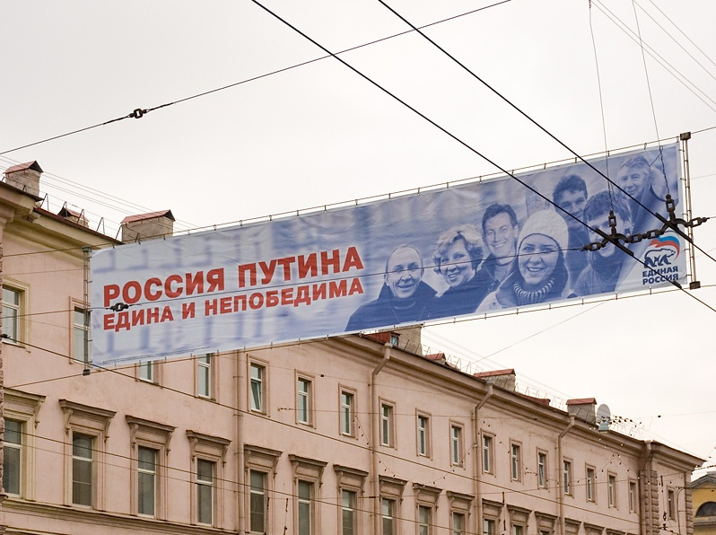 Election advertising in Sankt-Petersburg, Russia. November, 2007